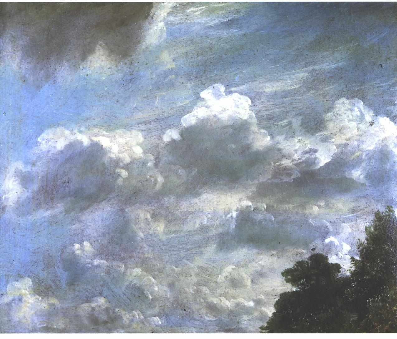 Cloud Study, Hampstead; Tree at Right, Royal Academy of Arts, London